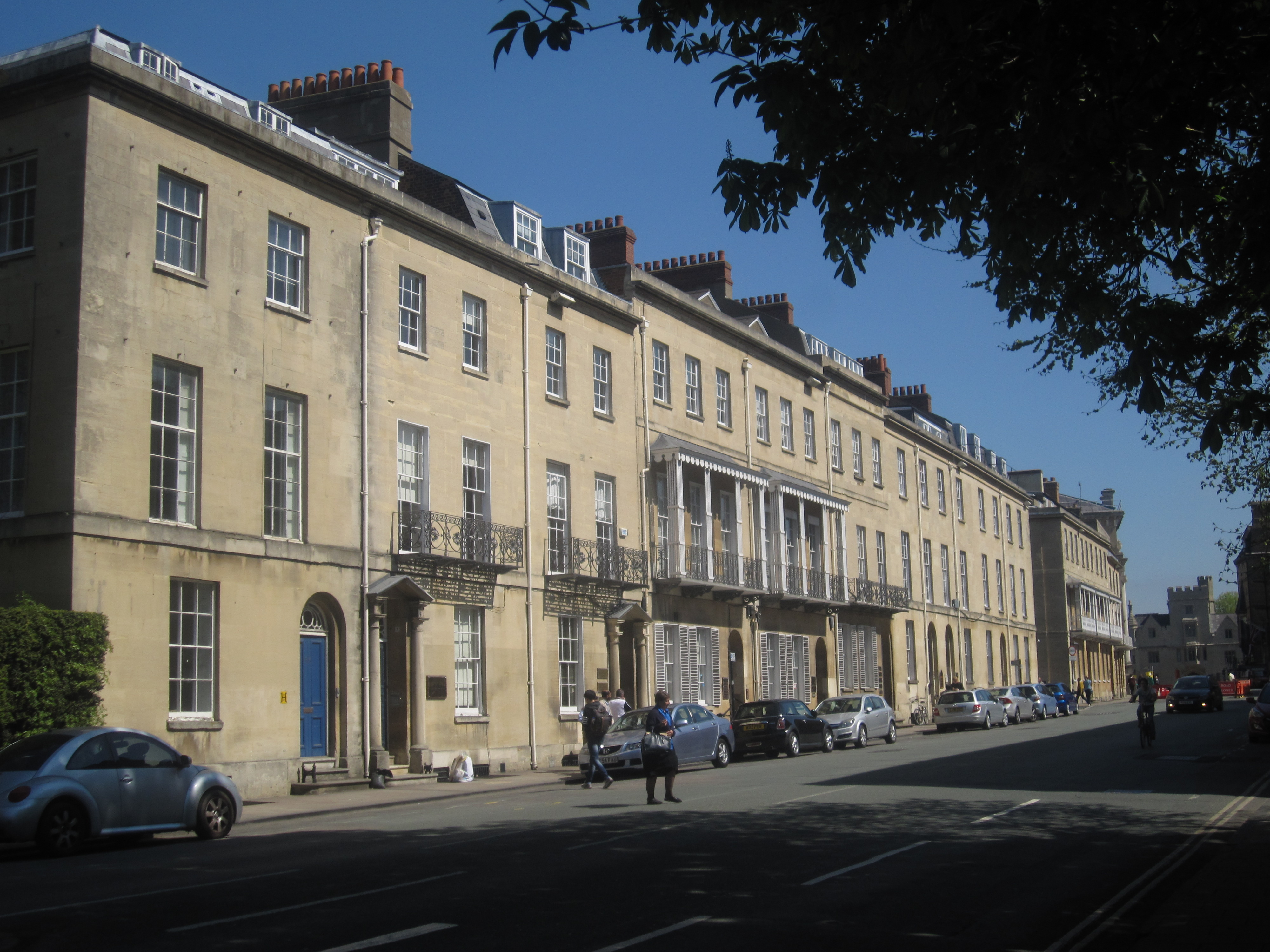 24-37 Beaumont Street, Oxford, England, seen from the southwest. The houses were built 1828–37.